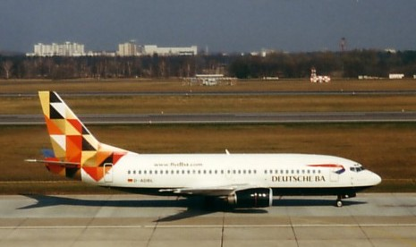 Deutsche BA Boeing 737-300 (D-ADBL), Tegel International Airport, Germany